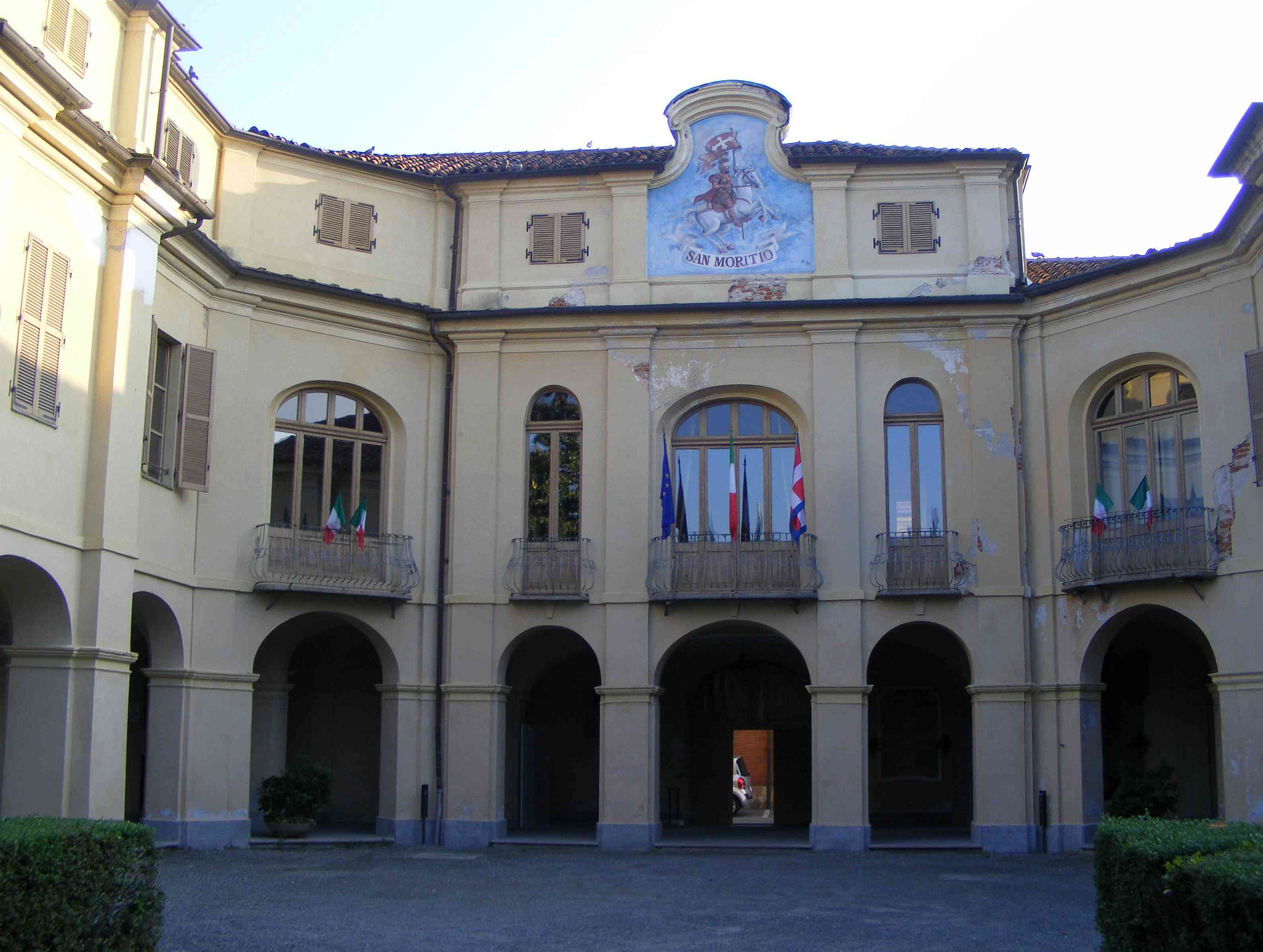 San Maurizio Canavese (TO, Italy): town hall